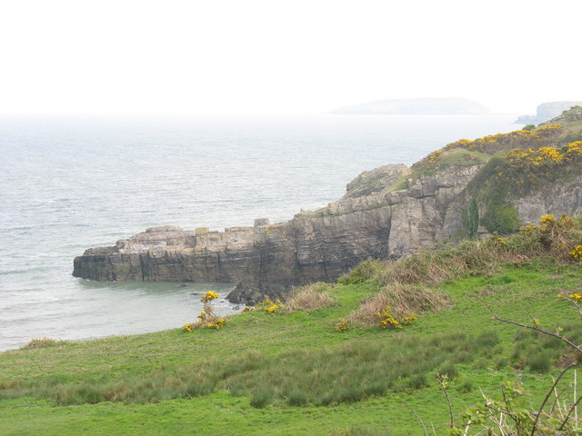 Pen-y-chwarel - quarry top This view taken from the minor road shows part of a small disused limestone quarry.